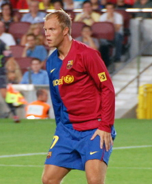 Shay took the photo during Joan Gamper trophy, I cropped it